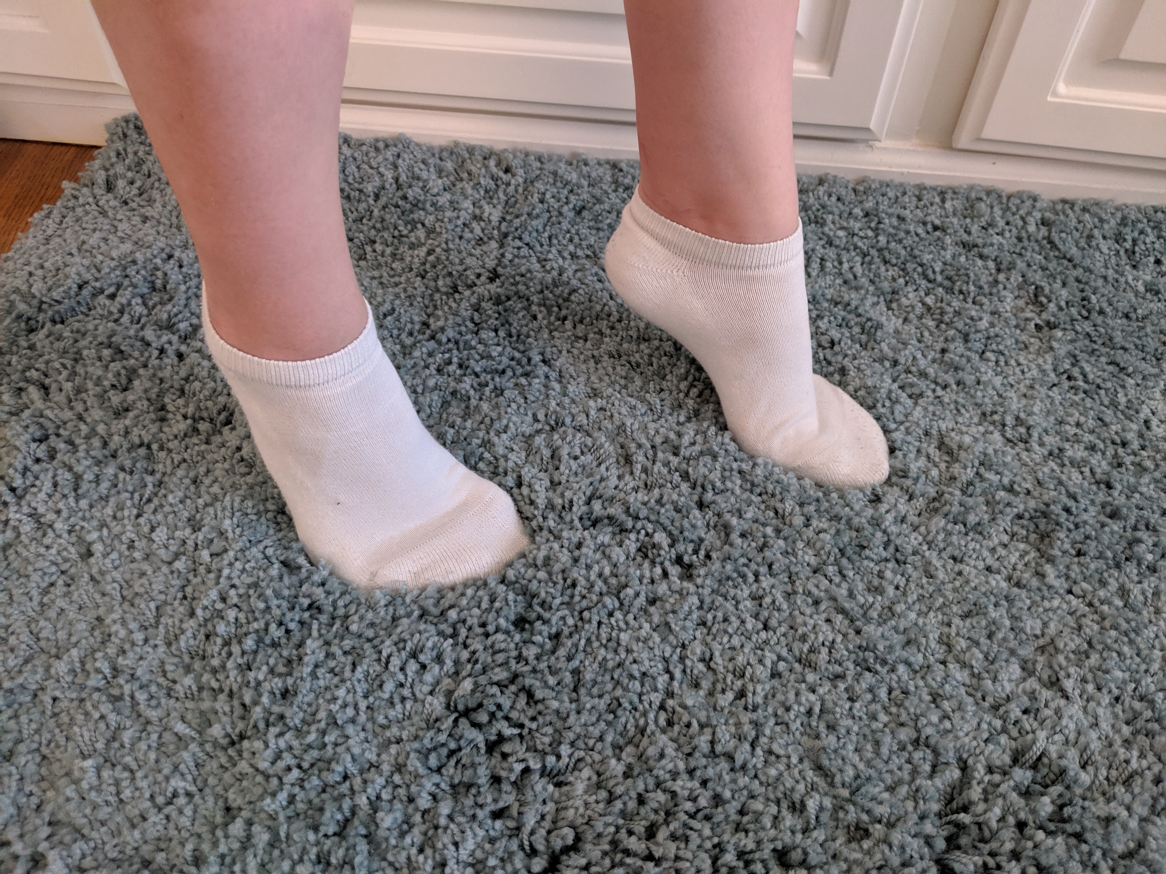 Autistic people may walk on the balls or toes of their feet. Unfortunately, frequent toe-walking (just like frequent high heel use) can lead to damage and pain in the long term. Socks, slippers, and/or and clean floors may reduce discomfort related to floor texture. Explaining that toe-walking is unsafe and giving gentle reminders may help the person learn to correct their steps so they can walk safely.